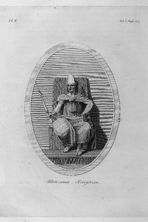 Moctezuma Xocojotzin aka Moctezuma II